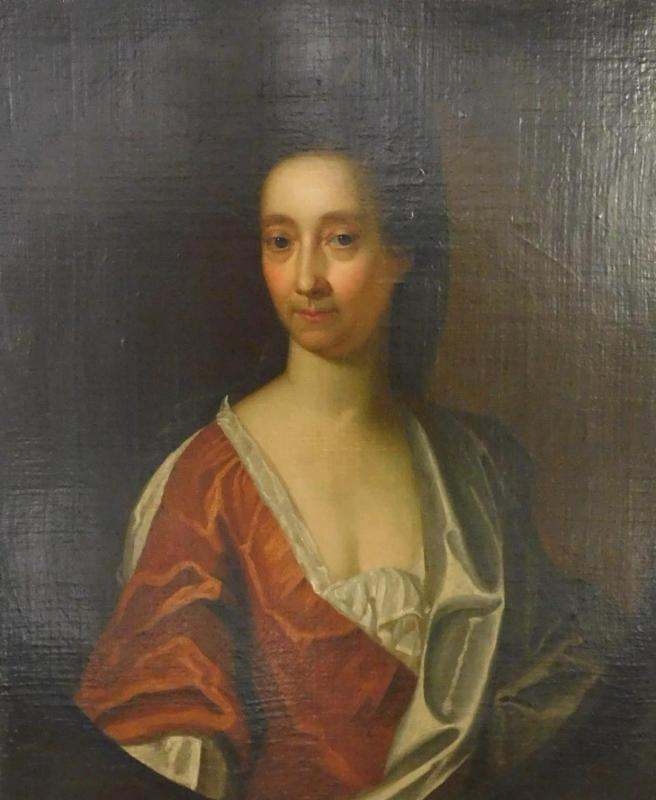 18thC English School. Portrait of Sarah Woolryce (1627-1710)18thC English School. Portrait of Sarah Woolryce (1627-1710), wife of Sir John Hewley, in half length pose wearing coral pink gown and within a painted oval, oil on canvas, 74cm x 72cm, in a period gilt gesso frame